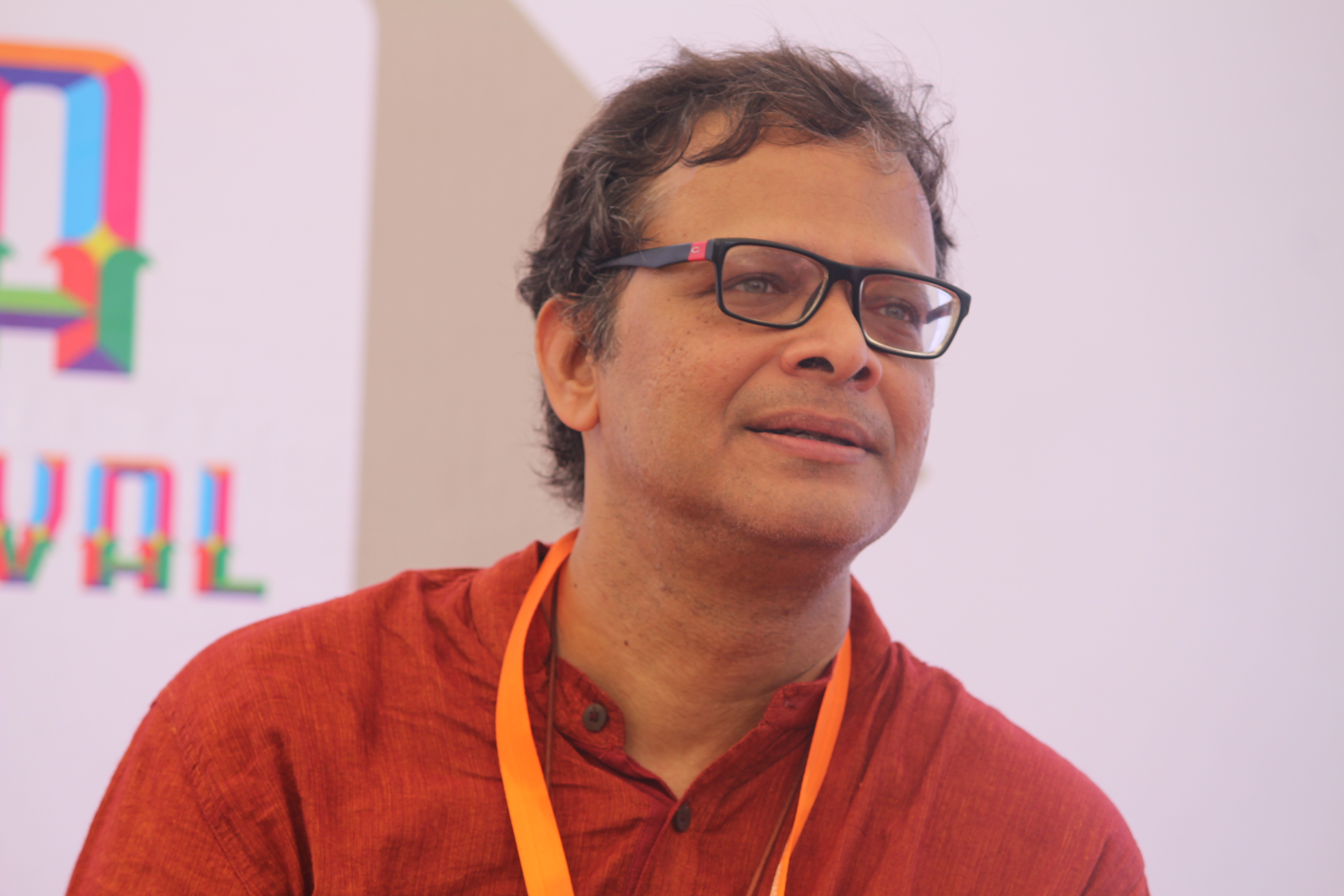 Jerry Pinto at kerala literature festival 2018 Kozhikode